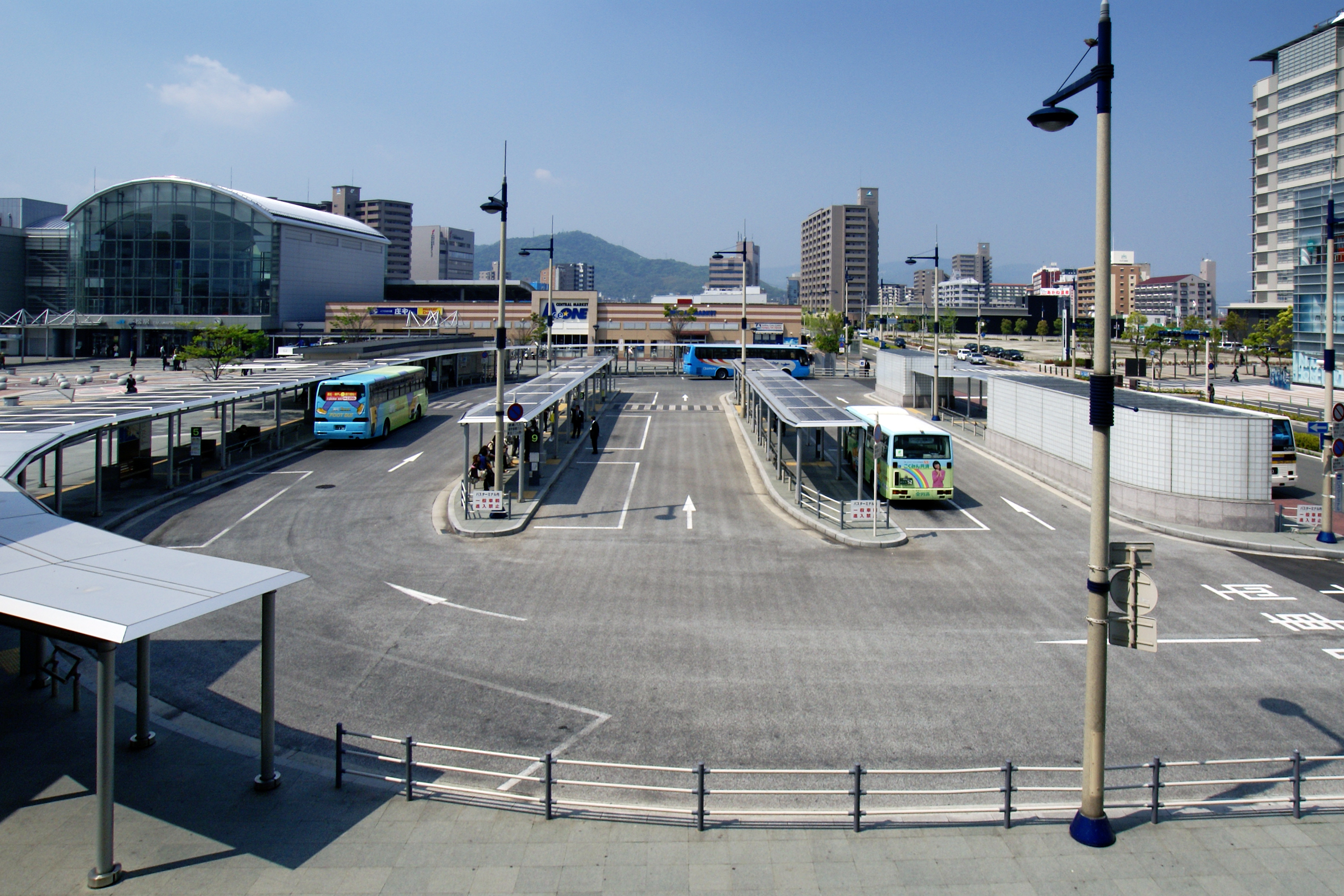 Takamatsu-eki-mae Bus Terminus in Takamatsu, Kagawa prefecture, Japan